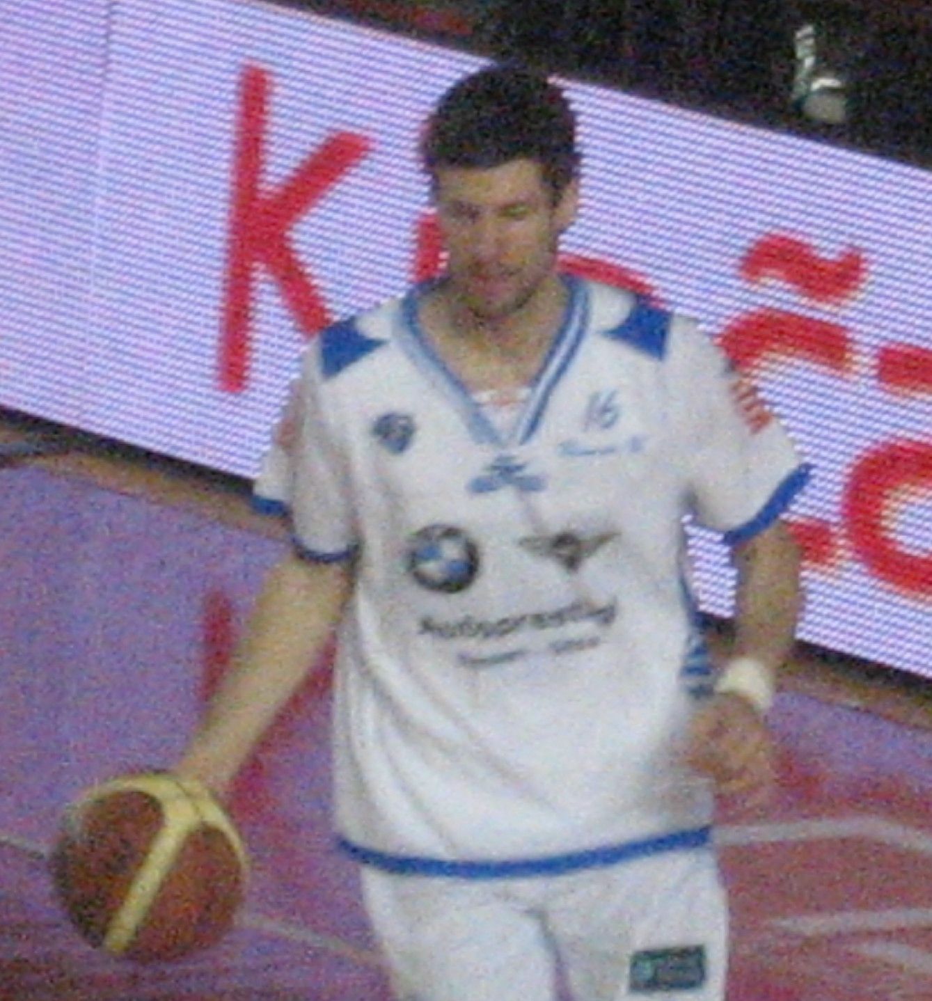 Drake Diener on pre-match warm-up